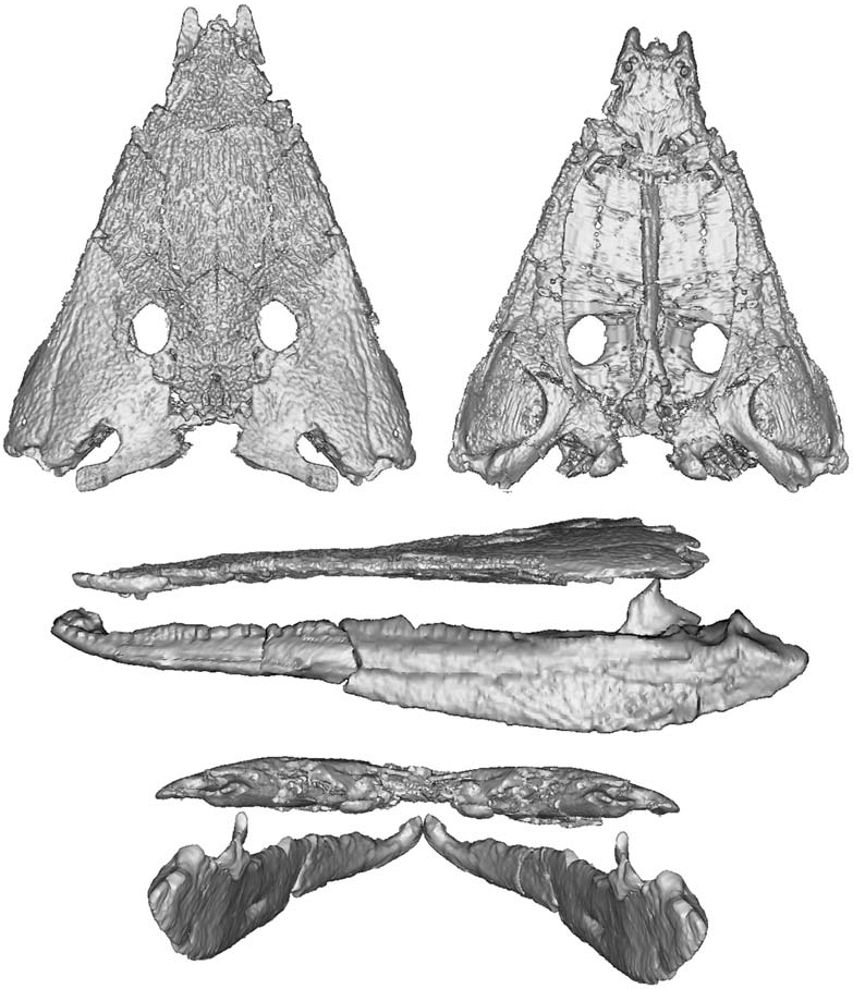 Computed tomographic reconstruction of the capitosaur Calmasuchus acri gen. et sp. nov. from the Anisian at the La Mora site, Spain, in dorsal (A), ventral (B), lateral (C), and occipital (D) views.